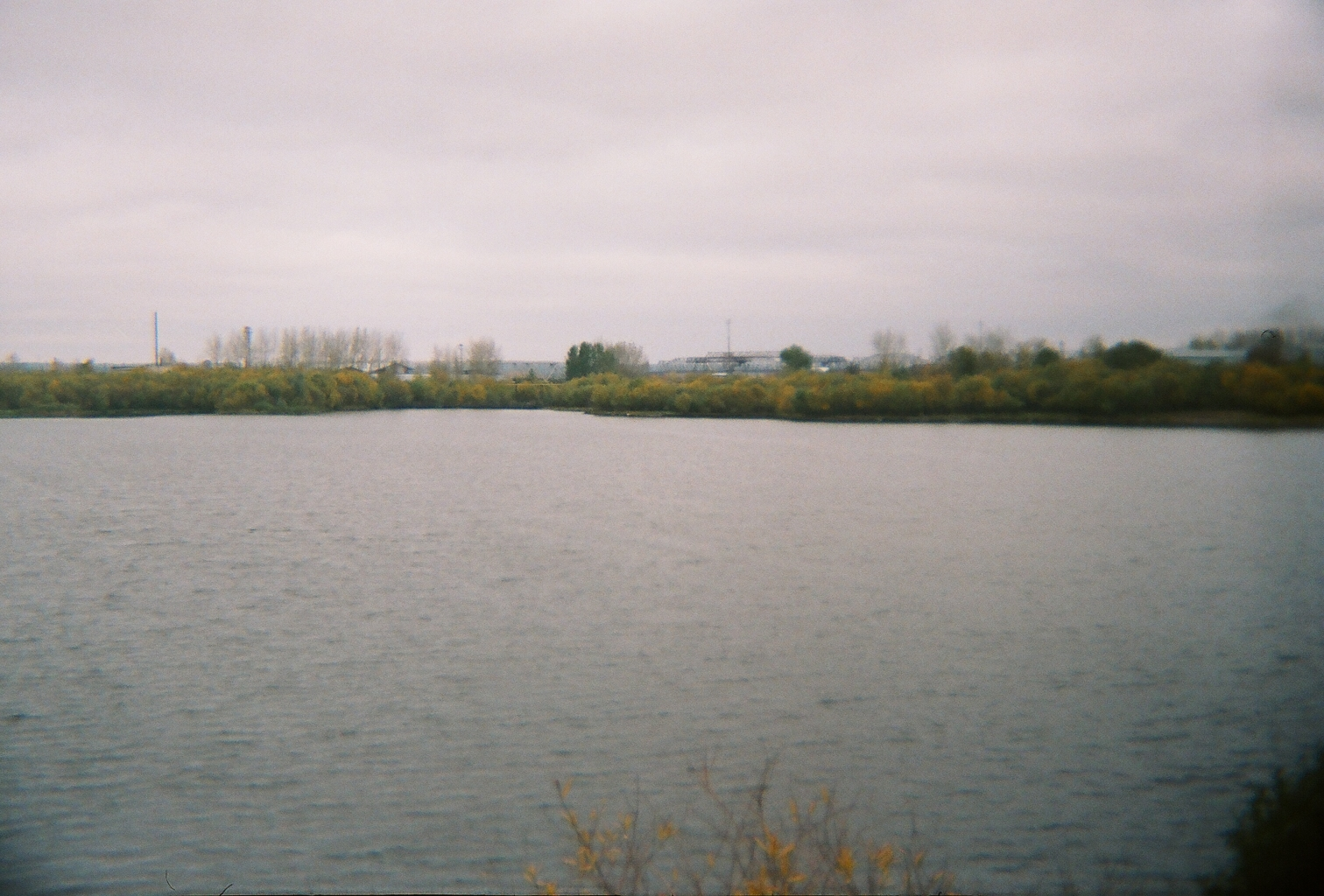 Mulyanka River. View of mouth from the bridge at Tramvaynaya Street.